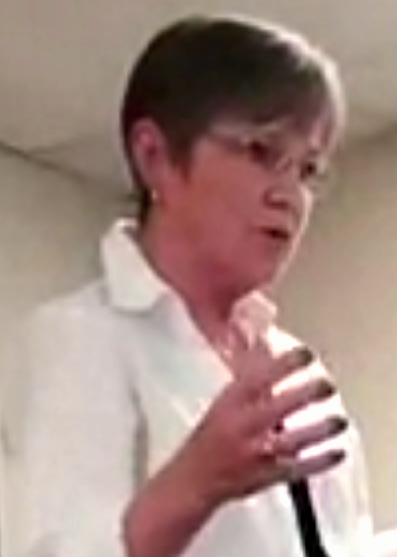 Laura Kelly